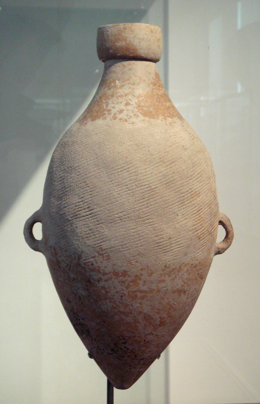 Yangshao hemp-cordmarked Amphora, Banpo Phase 4800 BCE, Shaanxi. Photographed at the Musee Guimet